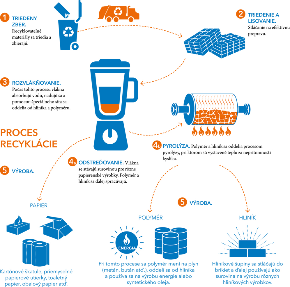 Recycling proces of a TBA (Tetra Brick Aseptic) package in slovak.